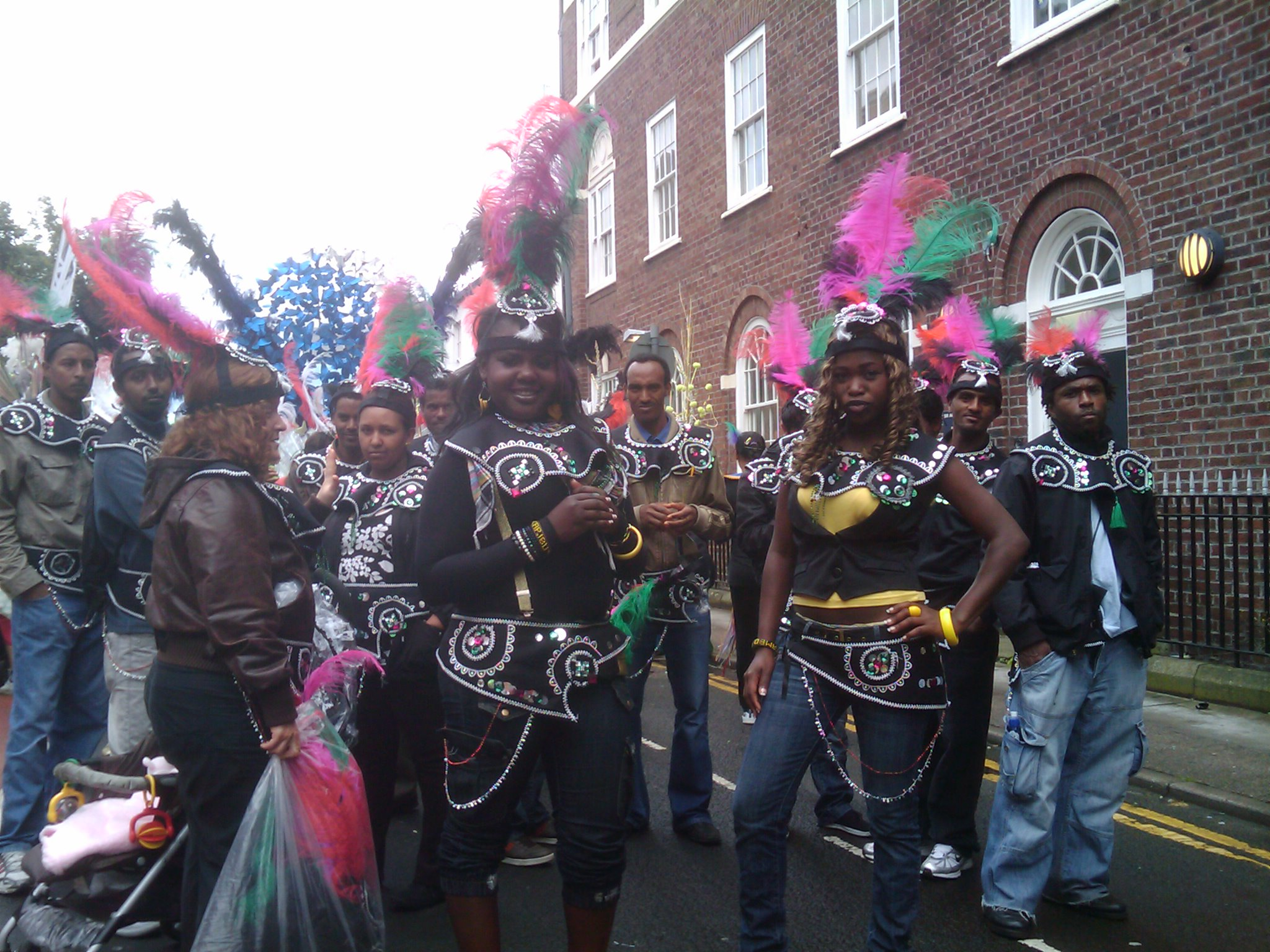 Some members of the Yaa Asantewa Carnival Arts group taking part in the Sunshine Arts Carnival in Liverpool, England, UK.